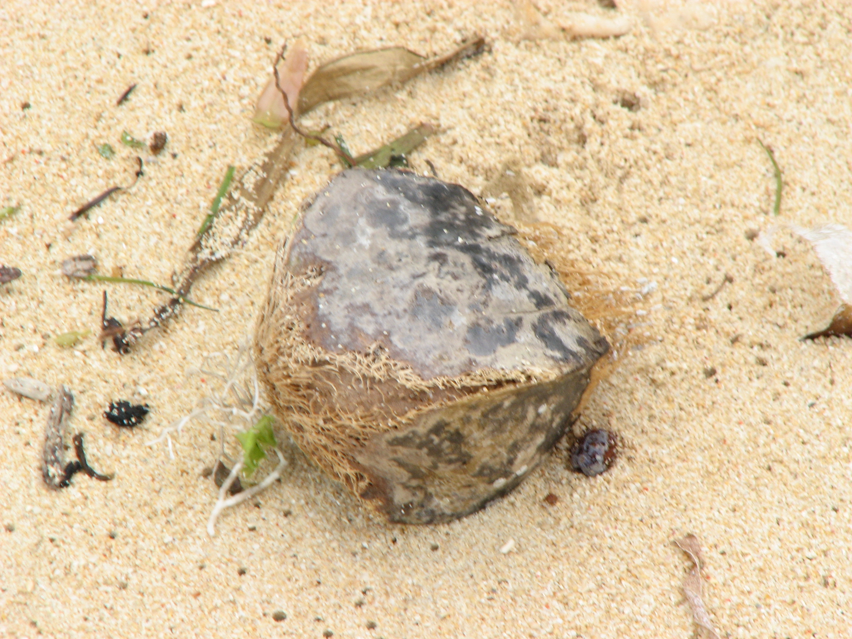 Barringtonia asiatica seed drafting by the beach at Iriomote is. Okinawa, Japan